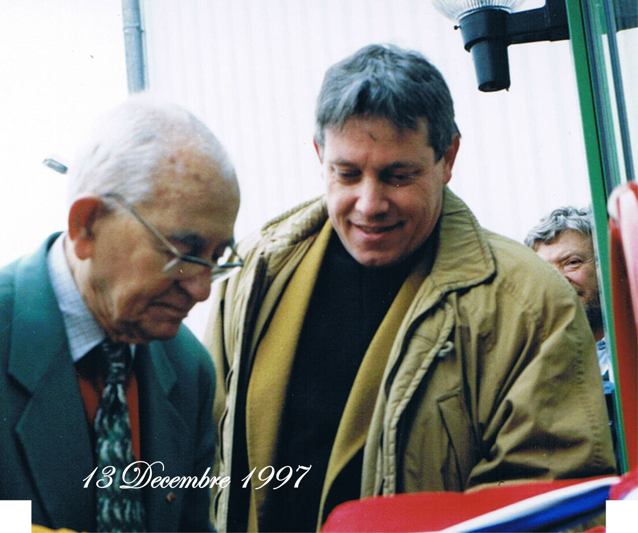 Own reward from my friend Louis Leprince Ringuet